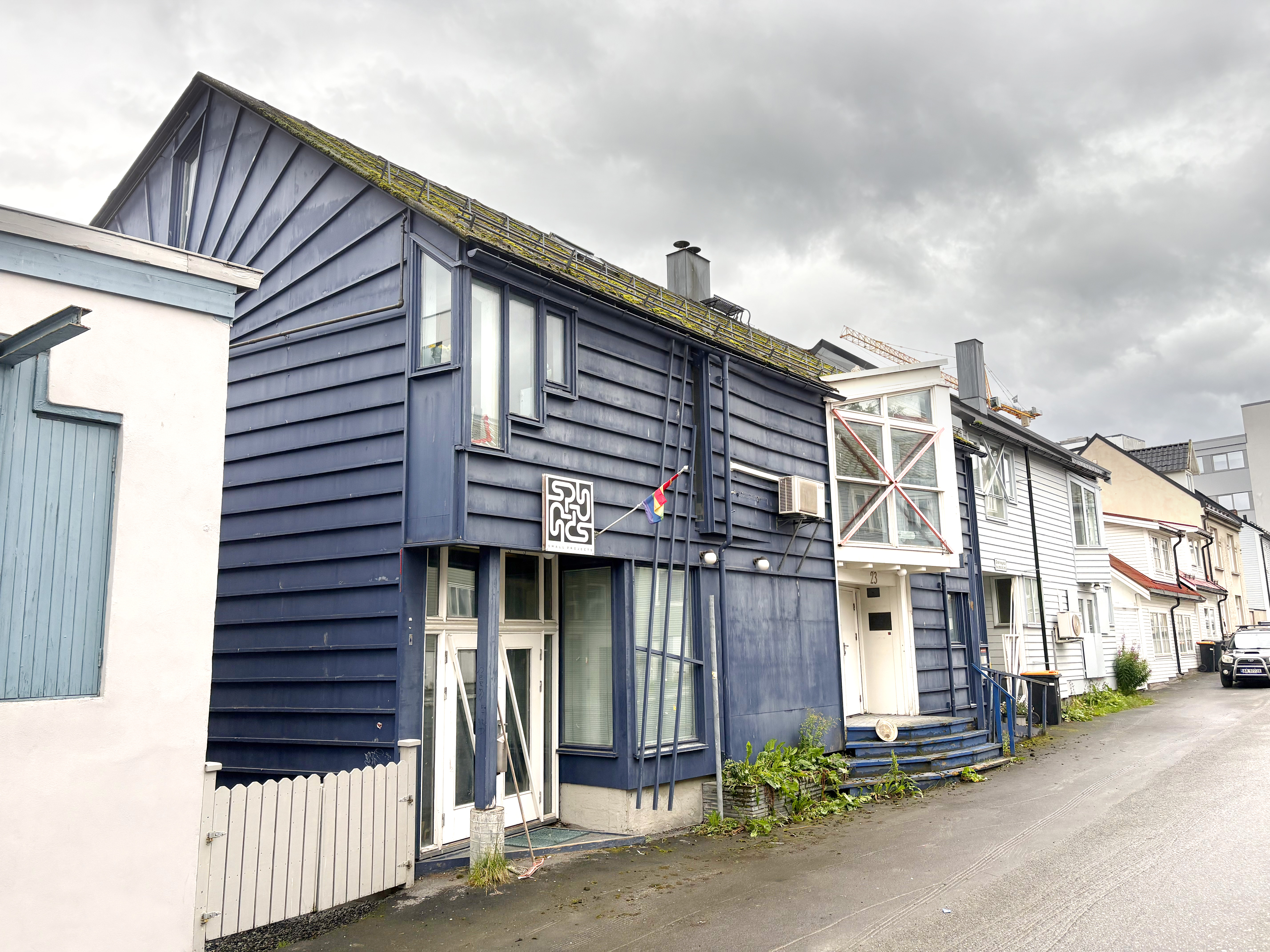 Postmodern architechture in Tromsø, Norway. Grønnegata 21-23.